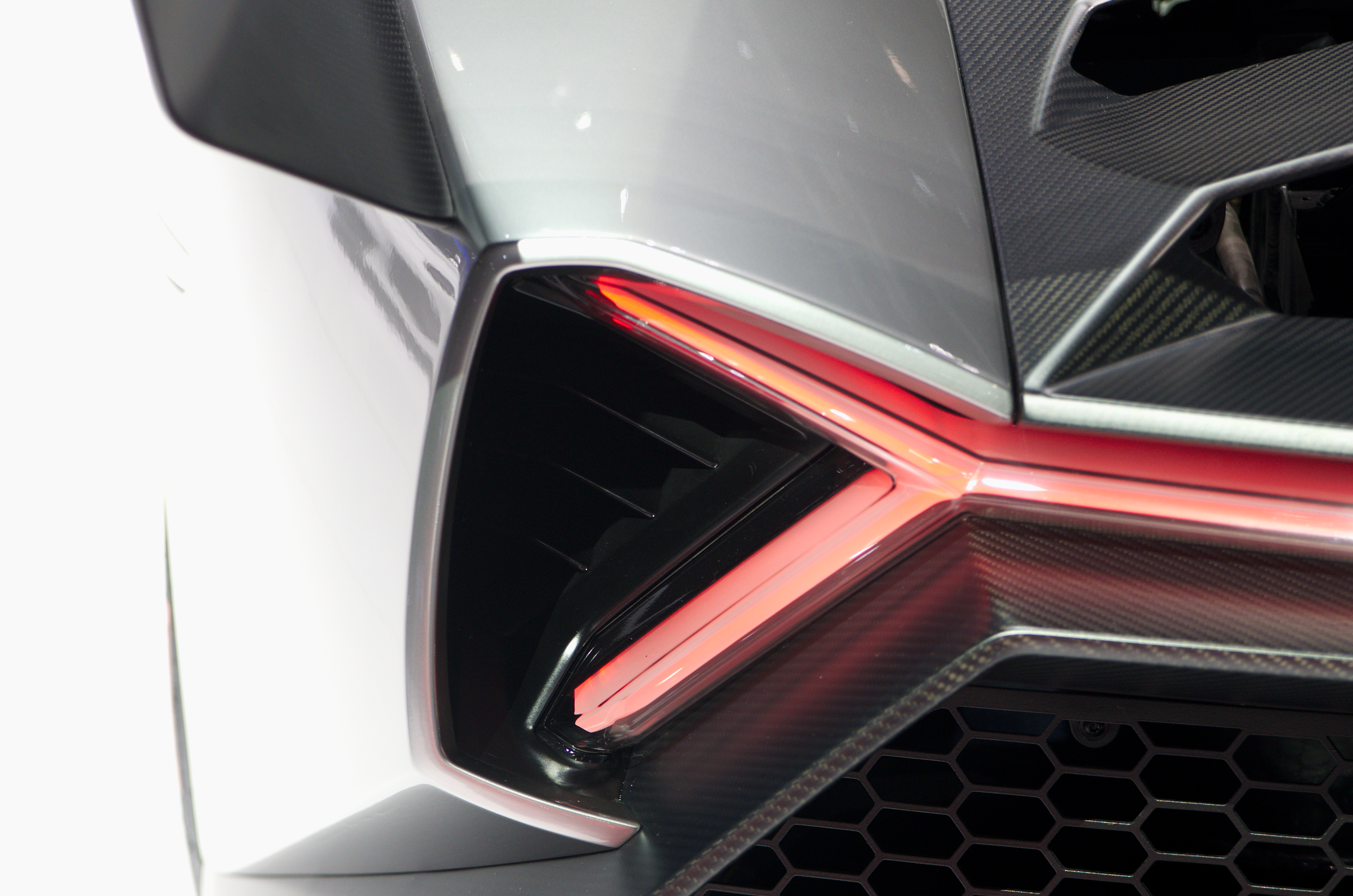 Geneva MotorShow 2013 - Lamborghini Veneno detail 2